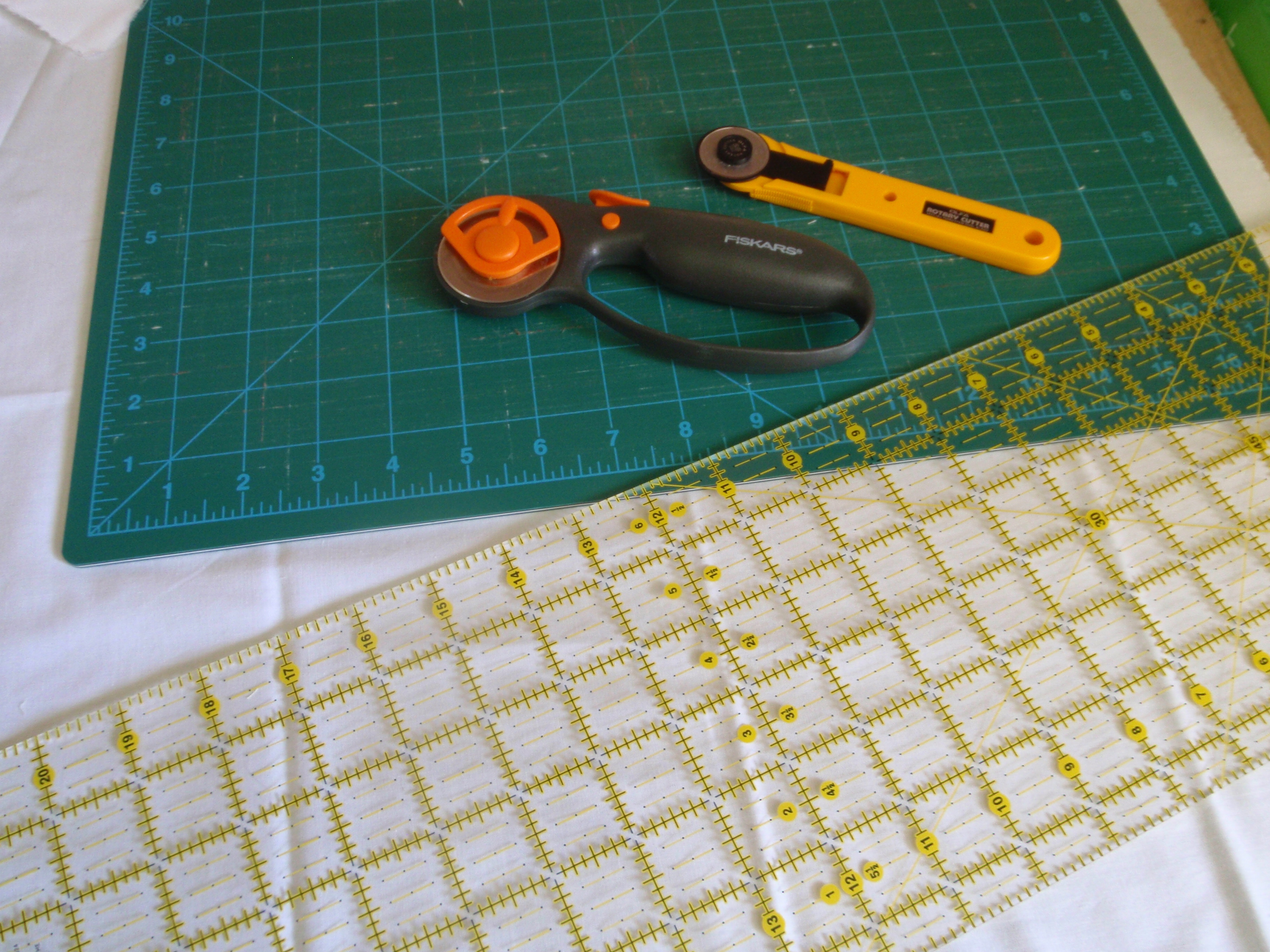 Created for use on wiki page on quilting - The Basics of Quilt Assembly